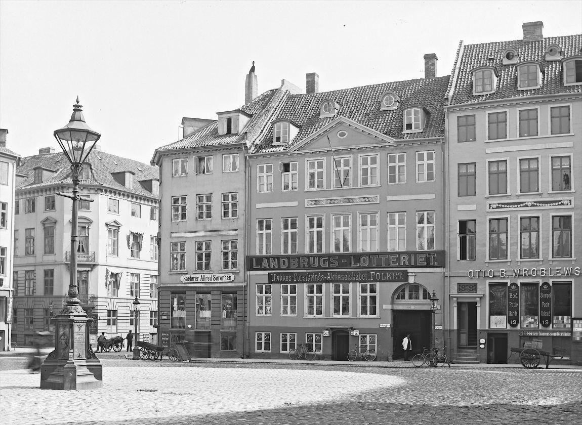 Nytorv 17 in Copenhagen, Denmark